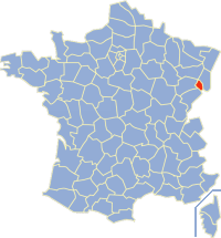 Map of France with highlighted #90 department.